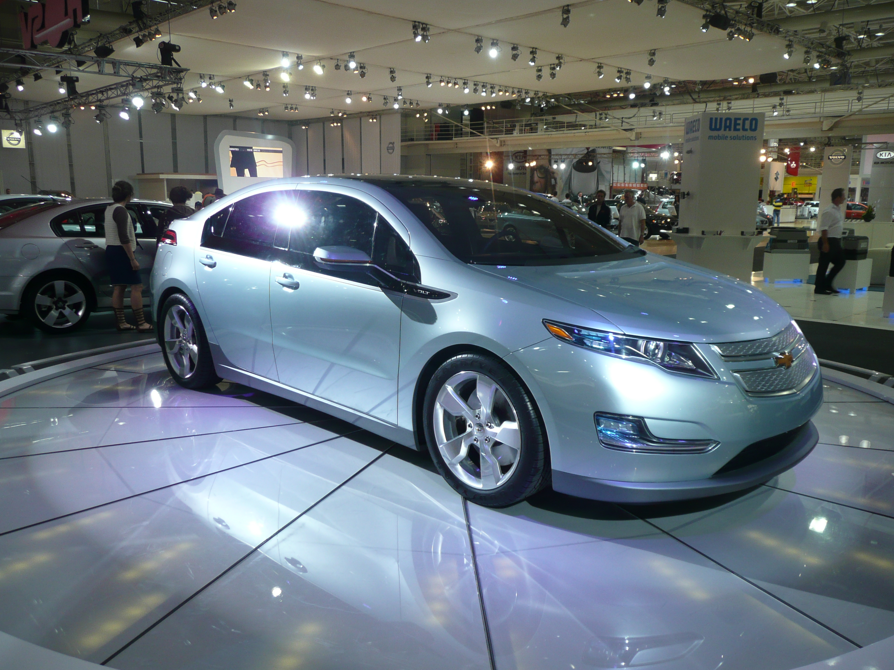 2008 Chevrolet Volt hatchback (concept). Photographed at the 2008 Australian International Motor Show, Sydney, New South Wales, Australia.